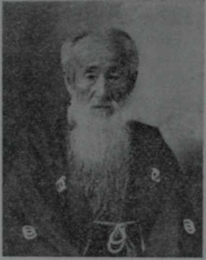 Portrait of NAKAI KEISHO(1831-1909), seal engraver